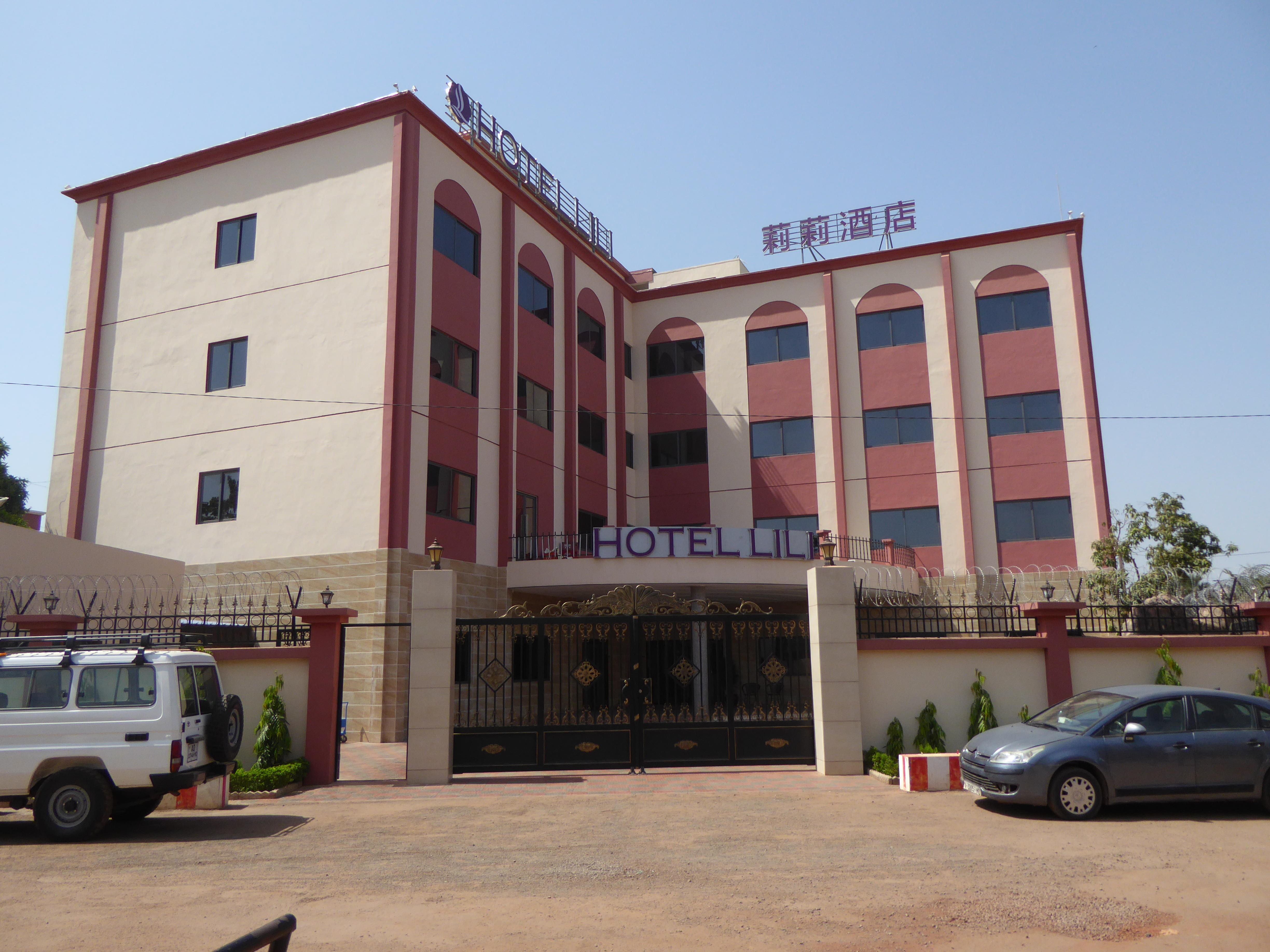 Hotel Lili in Bamako